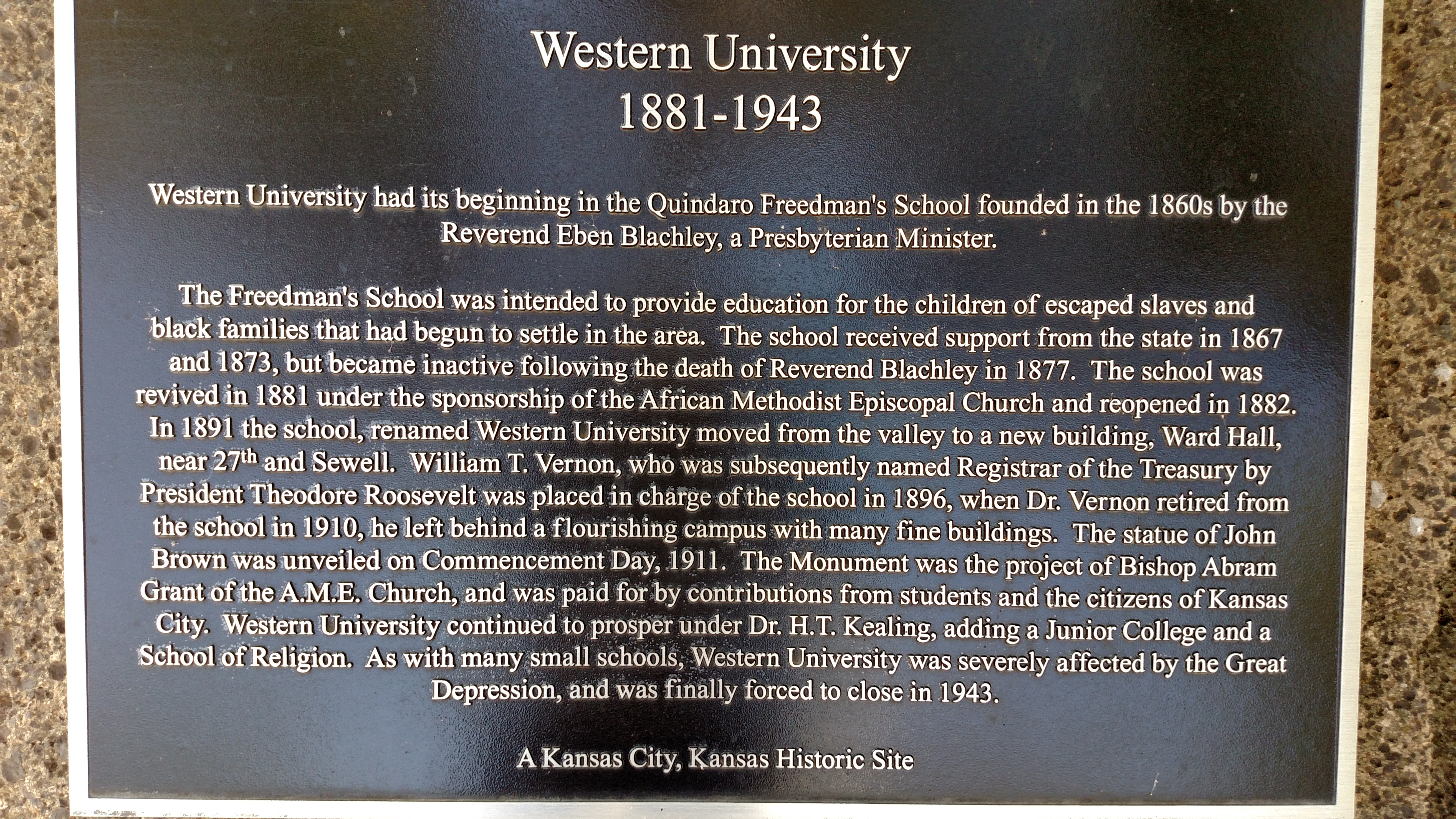 Western University (Kansas) (1865–1943) was a historically black college (HBCU) established in 1865 as the Quindaro Freedman's School at Quindaro, Kansas after the Civil War. The earliest school for African Americans west of the Mississippi River, it was the only one to operate in the state of Kansas. In the first three decades of the 20th century, its music school was recognized nationally as one of the best. The Jackson Jubilee Singers toured from 1907-1940, and appeared on the Chautaqua circuit. Among the university's most notable alumni were several women who were influential music pioneers in the early 20th century, including Eva Jessye, who created her own choir and collaborated with major artists such as Virgil Thomson and George Gershwin in New York City. Nora Douglas Holt was a composer, music critic and performer who toured in Europe as well as the United States. Etta Moten Barnett became known for singing the lead in Porgy and Bess in revival and on tour. Expanded around the start of the 20th century with an industrial department modeled after Booker T. Washington's Tuskegee Institute, the university served African Americans for several generations. It struggled financially during the Great Depression, as did many colleges, and finally closed in 1943. None of its buildings are still standing.